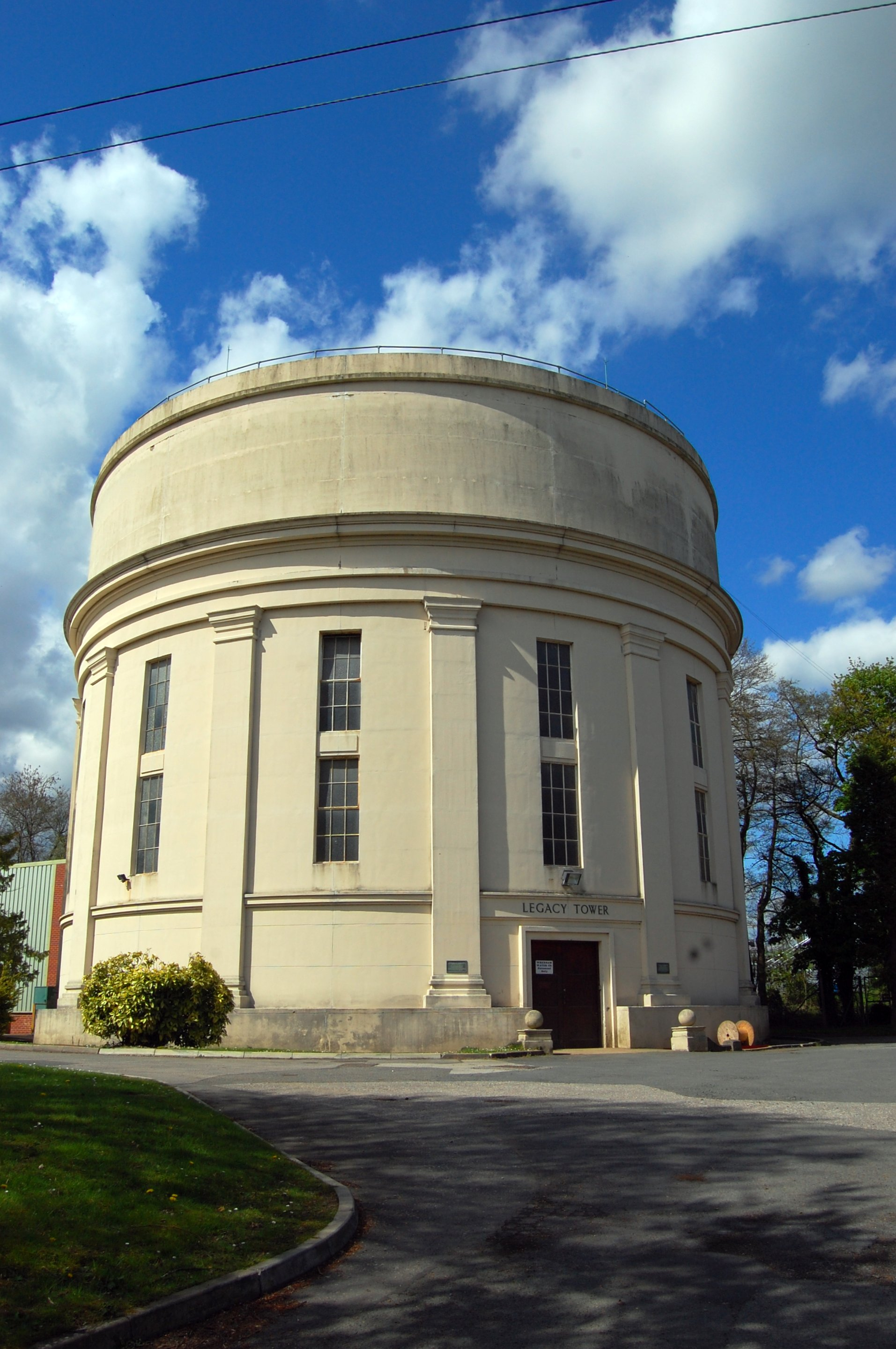 Legacy tower was opened in 1934 to store treated water for use in homes, schools and offices in Wrexham, Wales.